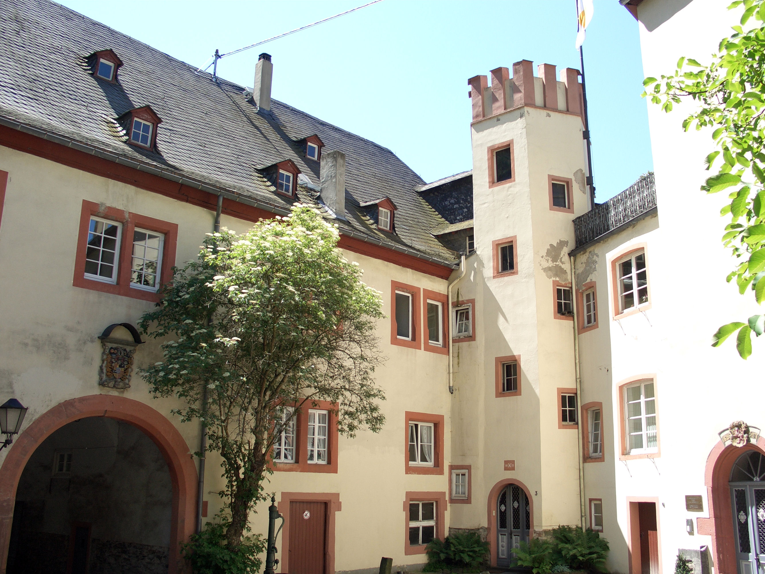 Schloss Philippsburg in Braubach